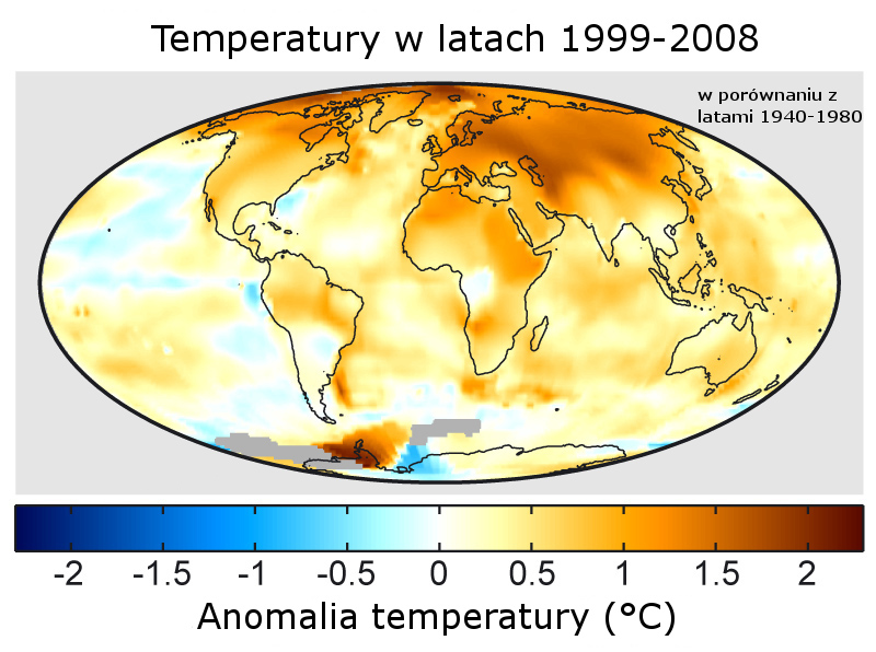 This plot is based on the NASA GISS Surface Temperature Analysis (GISTEMP), which combines the 2001 GISS land station analysis data set (Hansen et al. 2001) with the Rayner/Reynolds oceanic sea surface temperature data set (Rayner 2000, Reynolds et al. 2002). The data itself was prepared through the GISTEMP online mapping tool, and the specific dataset used is available here. This data was replotted in a Mollweide projection with a continuous and symmetric color scale. The smoothing radius is 1200 km, meaning that the reported temperature may depend on measurement stations located up to 1200 km away, if necessary.